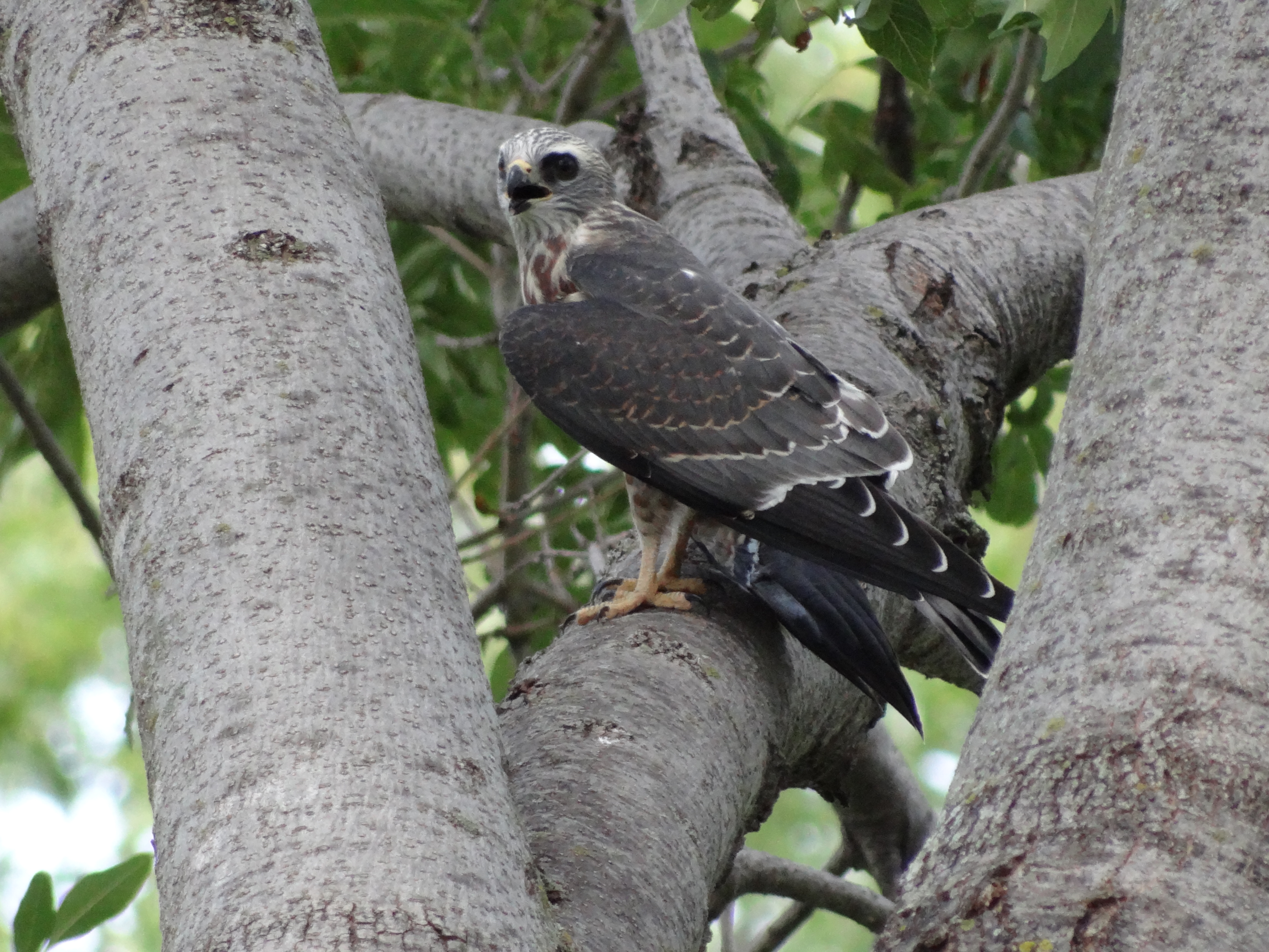 A white-tailed kite fledgling on its first day out of the nest. Taken near Ft. Worth, TX on 29 Aug 2103.